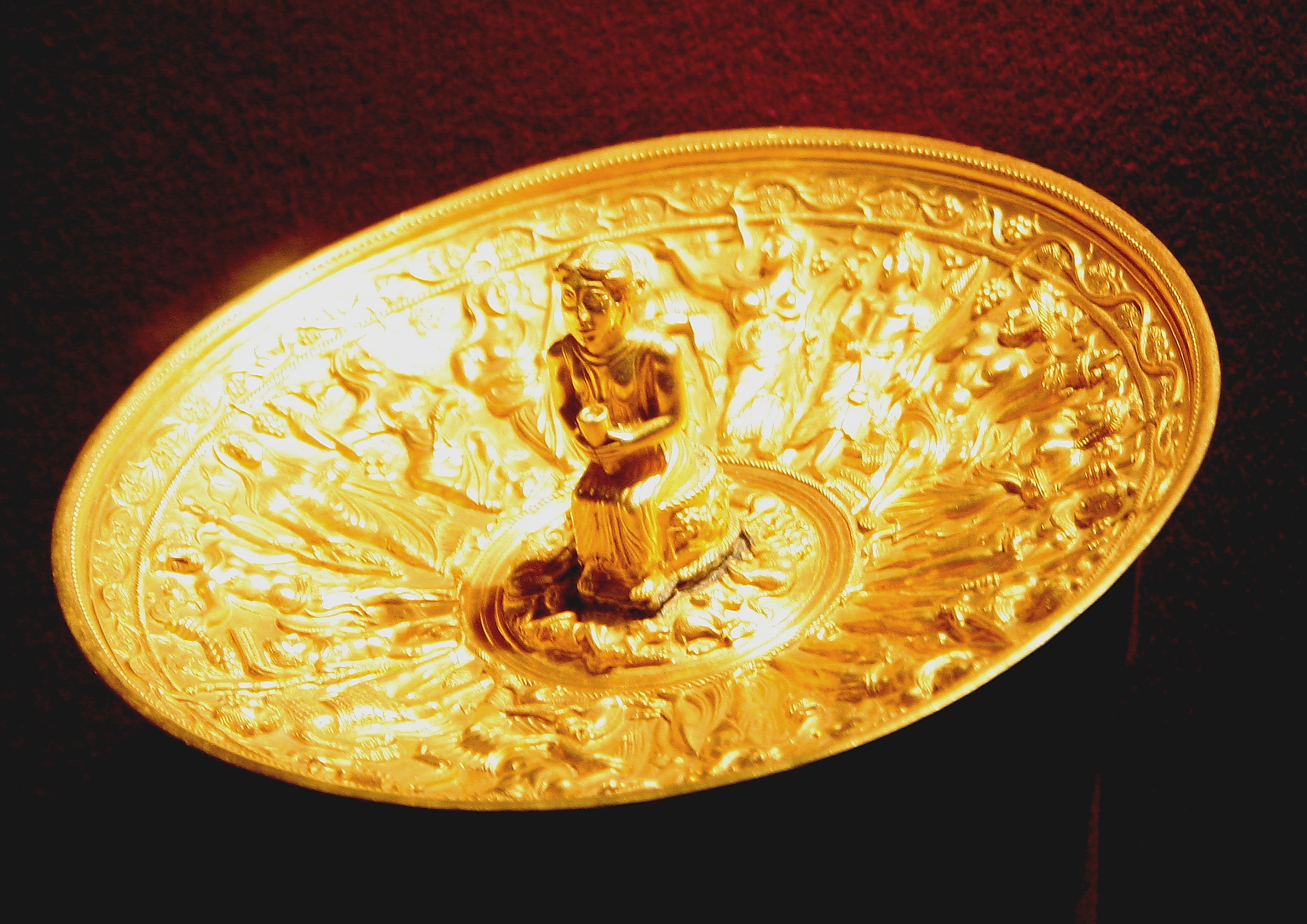 A Ostrogoths Pathera